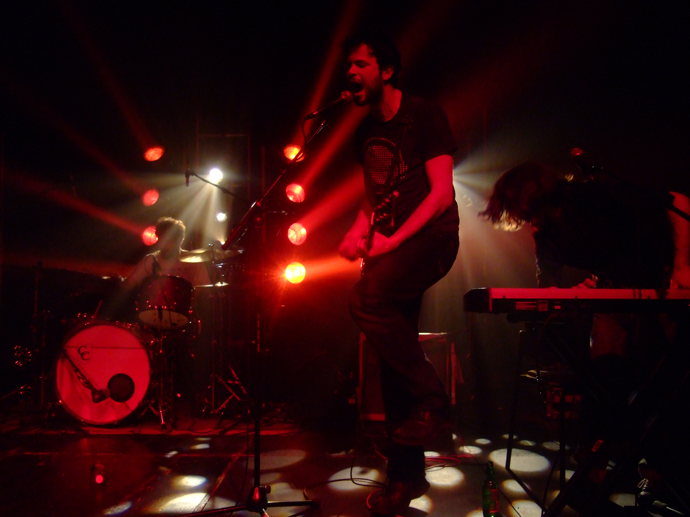 Wintersleep's concert, salle Andre Mathieu, Montreal